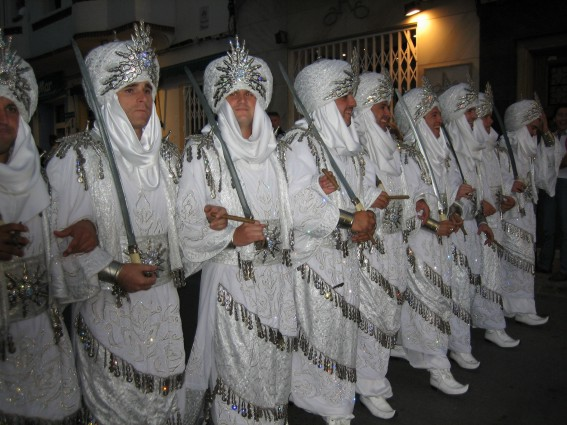 Picture taken by myself Feast of Christans and Mores in Altea (Spain) 2005